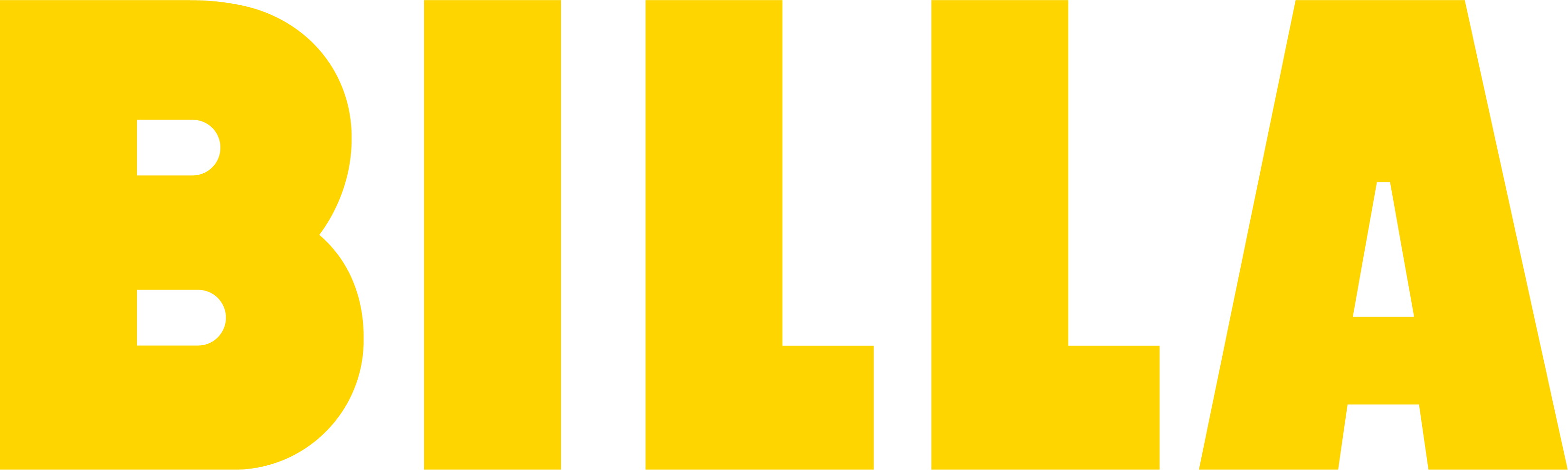 Logo of BILLA